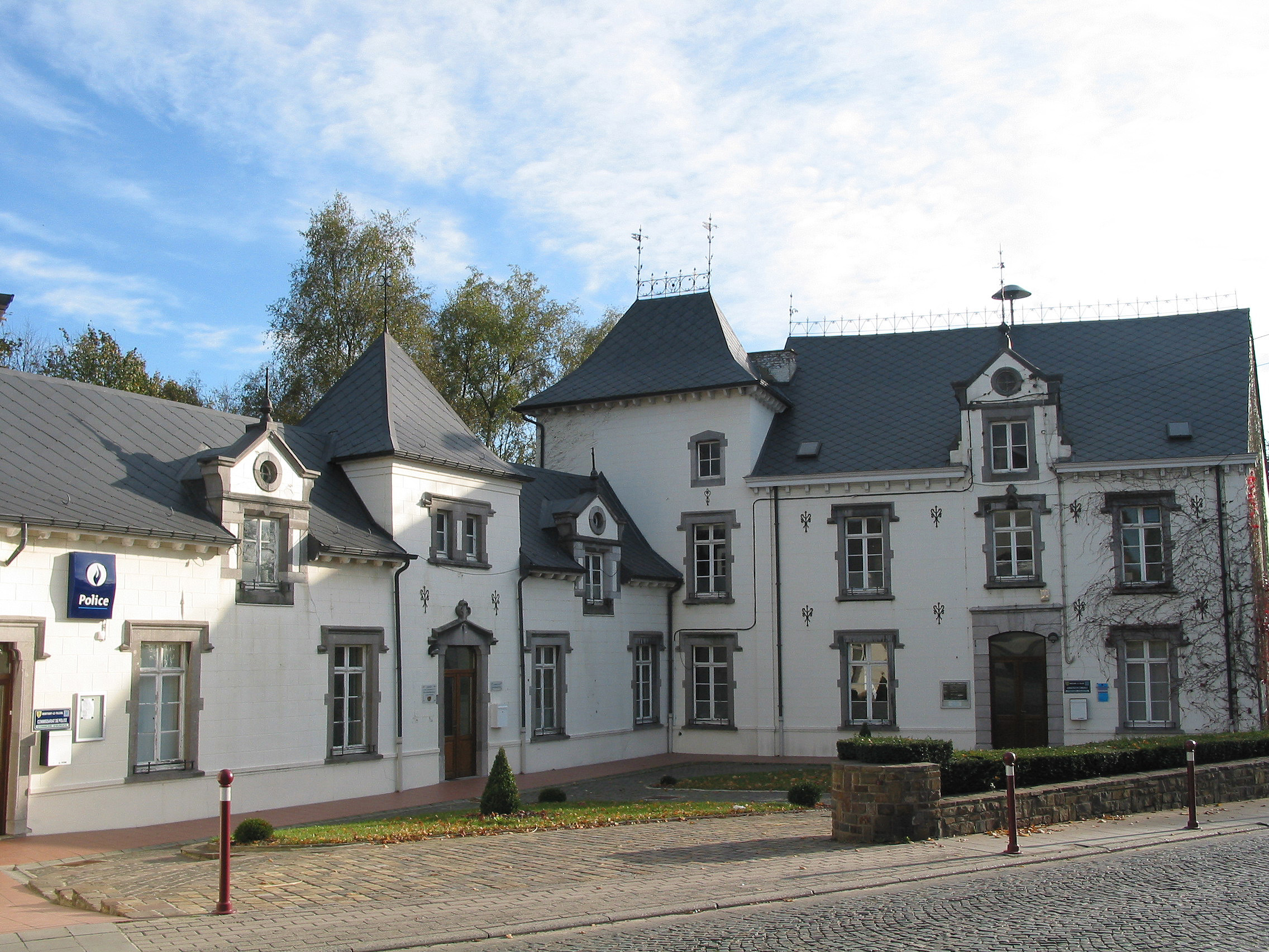 Montigny-le-Tilleul (Belgium), the town hall (Previous Wilmet Castle).